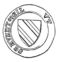 Margaret of Bourbon (1211–1256)